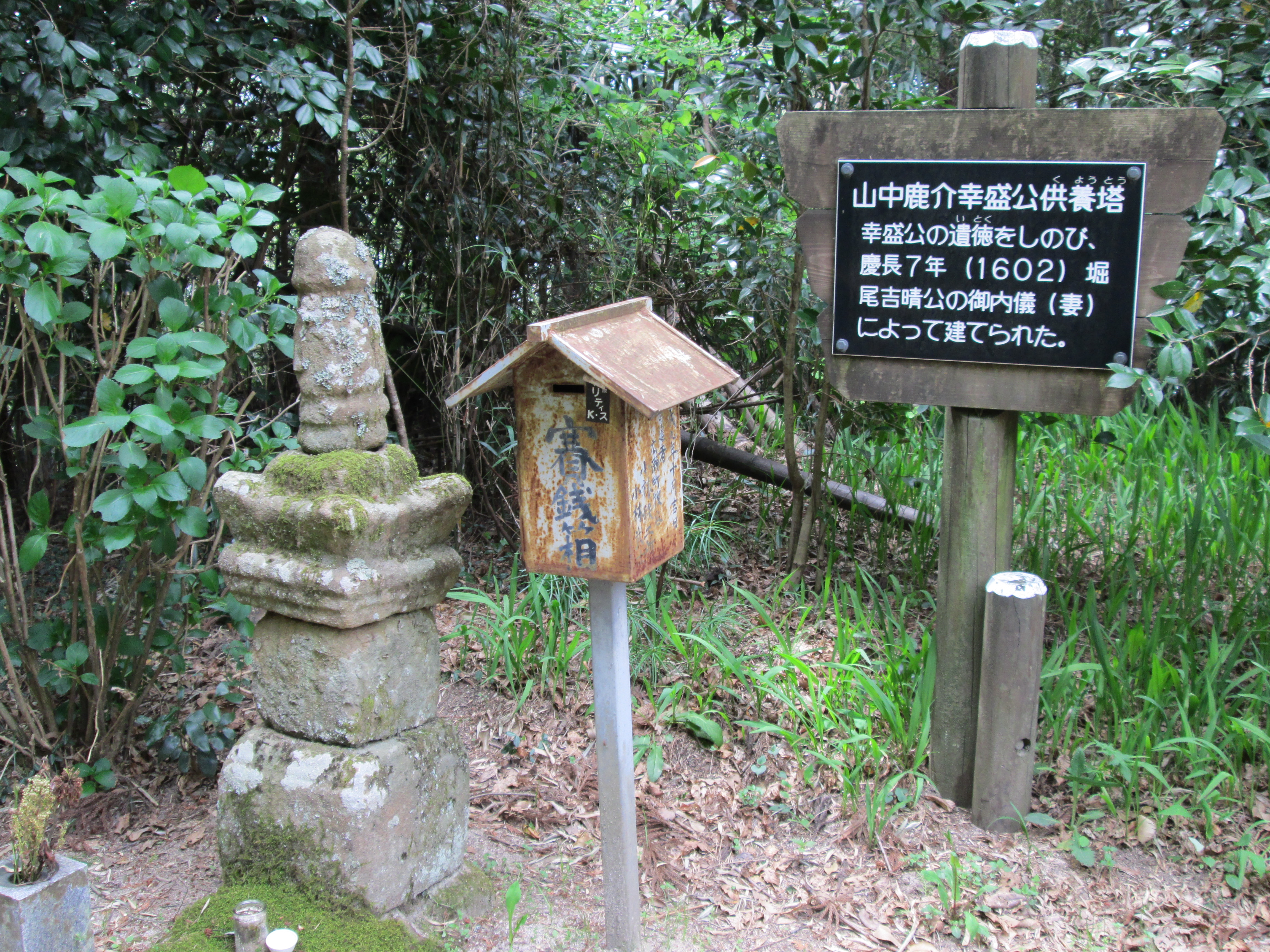 memorial tower1 of Yamanaka Yukimori in Hirosecho, Yasugi, Shimane, Japan